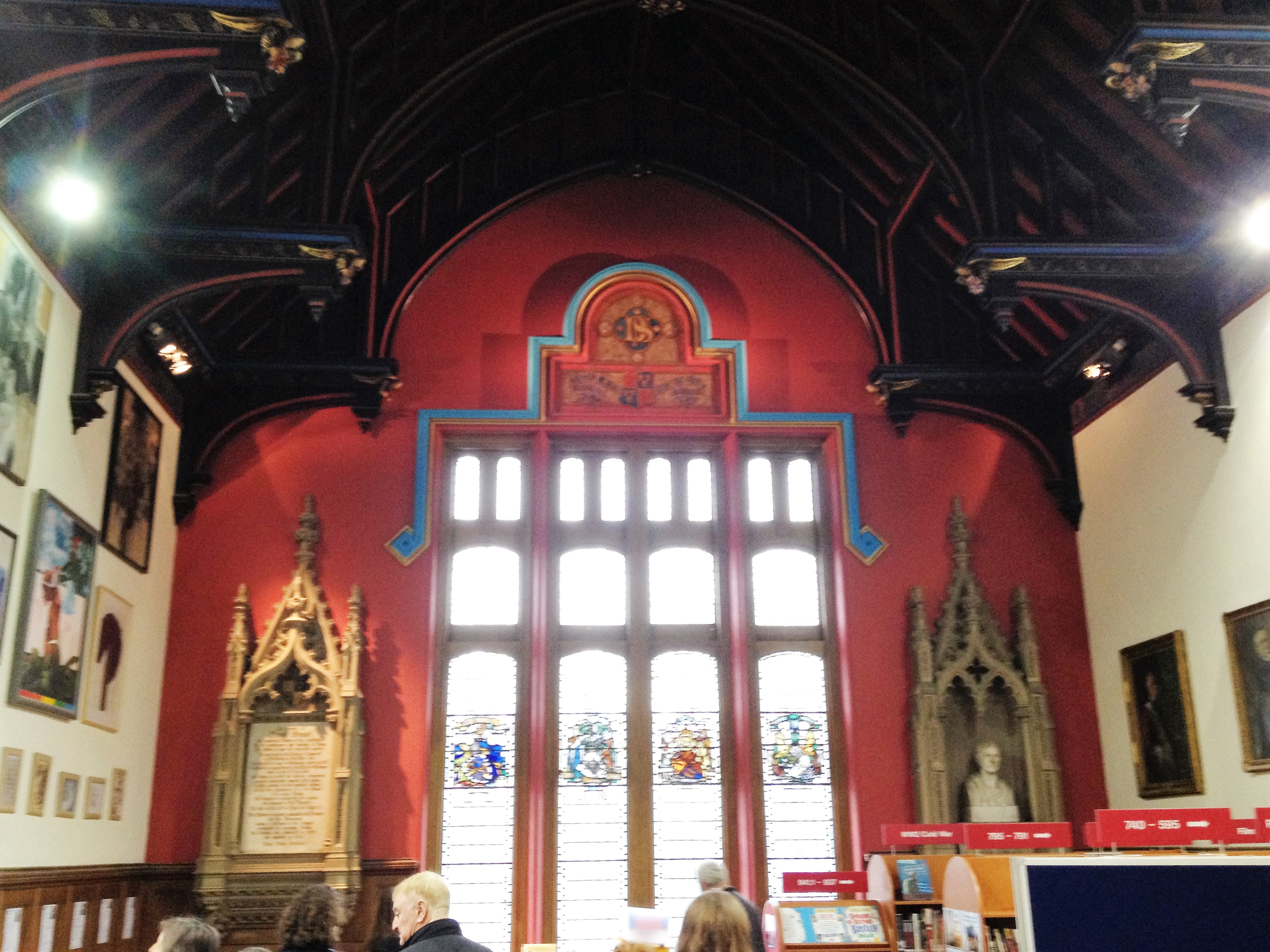 View of the south wall of the library of Stewart's Melville College in 2015